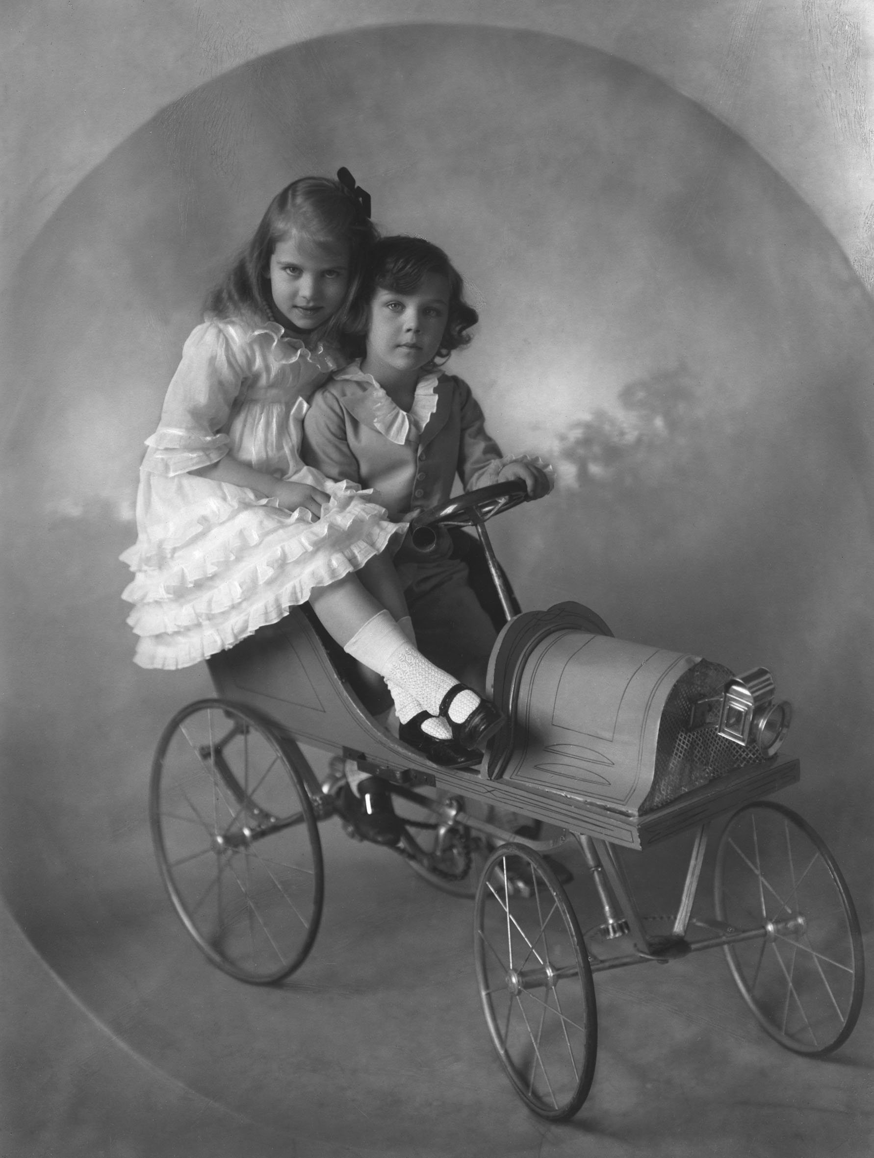 Prince Bertil with princess Ingrid in 1916.